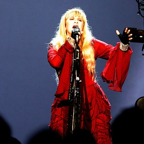 Stevie Nicks And Dave Stewart Perform At Sydney Entertainment Centre